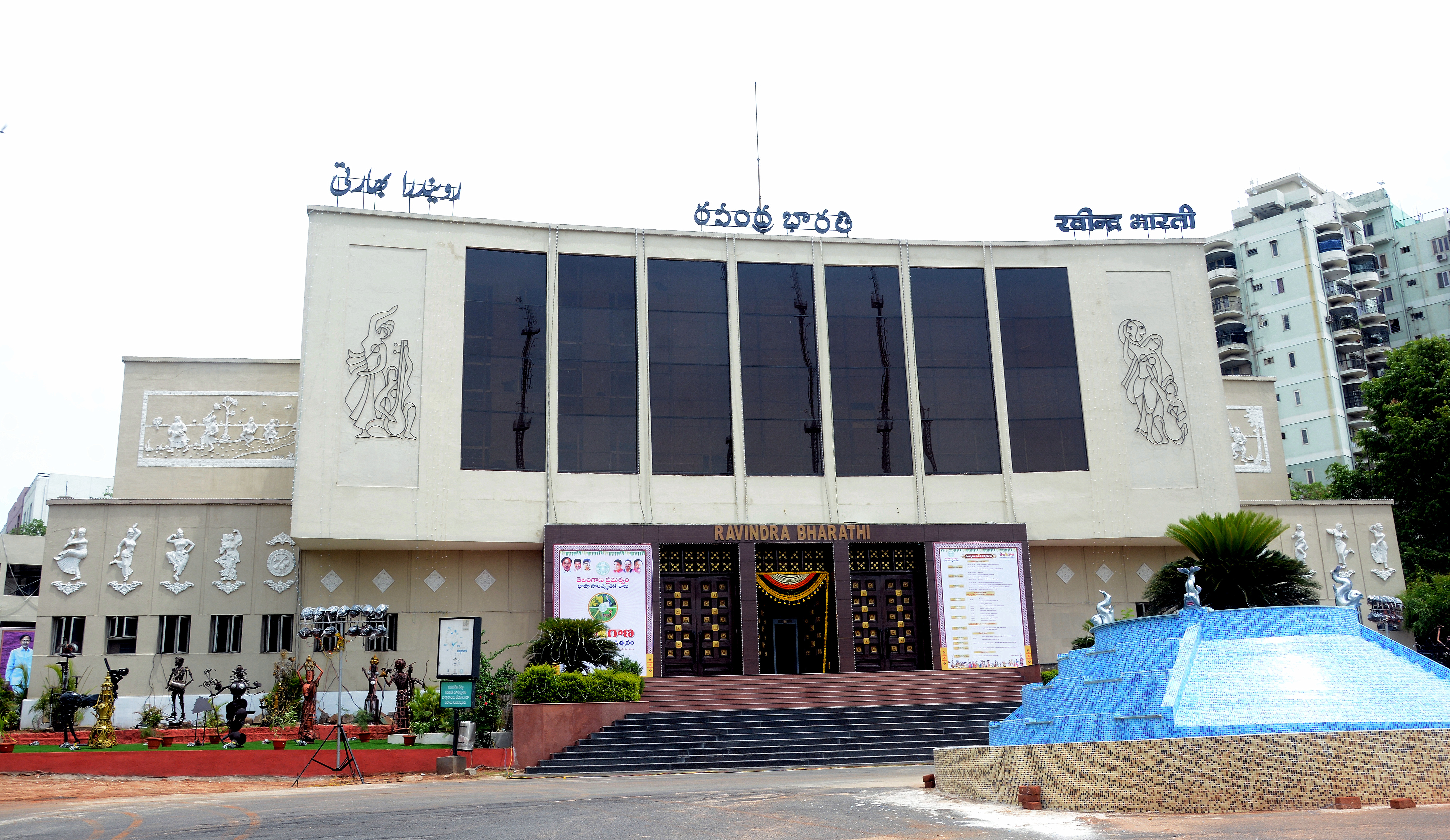 Ravindra Bharathi on State Formation Day 2018